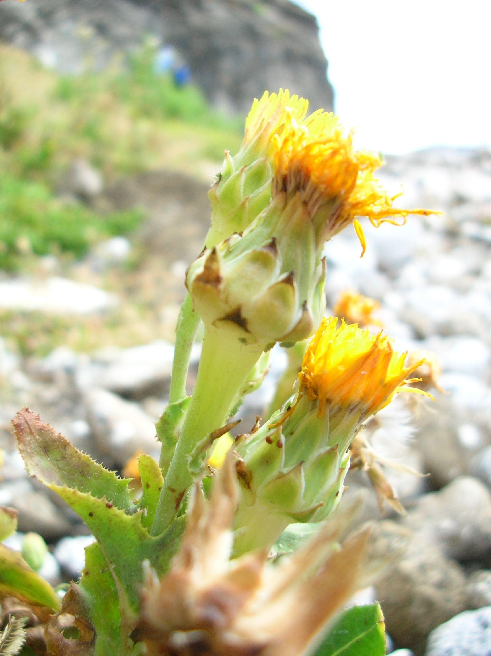 Reichardia picroides (flowers). Location: Oahu, Manana